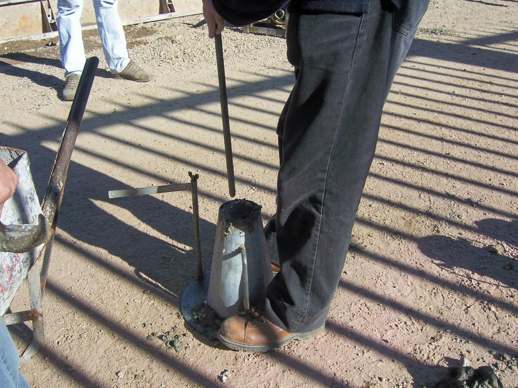 rodding the concrete in an Abrams slump cone